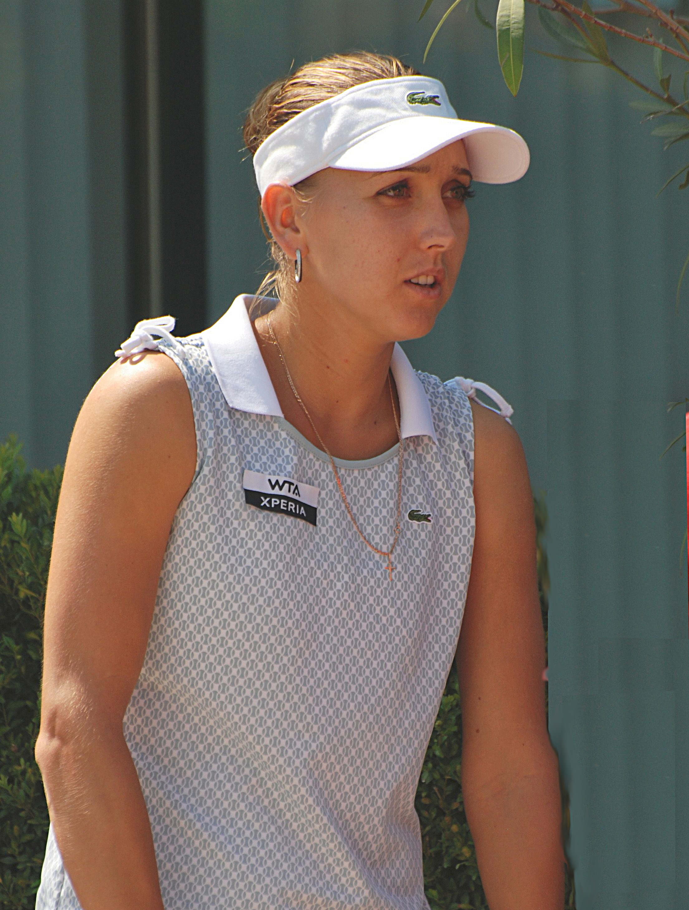 Elena Vesnina at Budapest Grand Prix, 2012